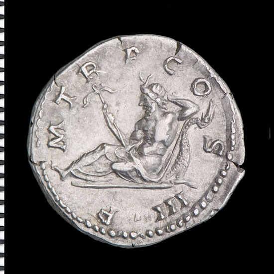 Oceanus, the river round the earth, personified [Hadrian], part of the Llanavches Roman coin hoard.